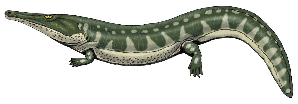 Trematolestes, my own work